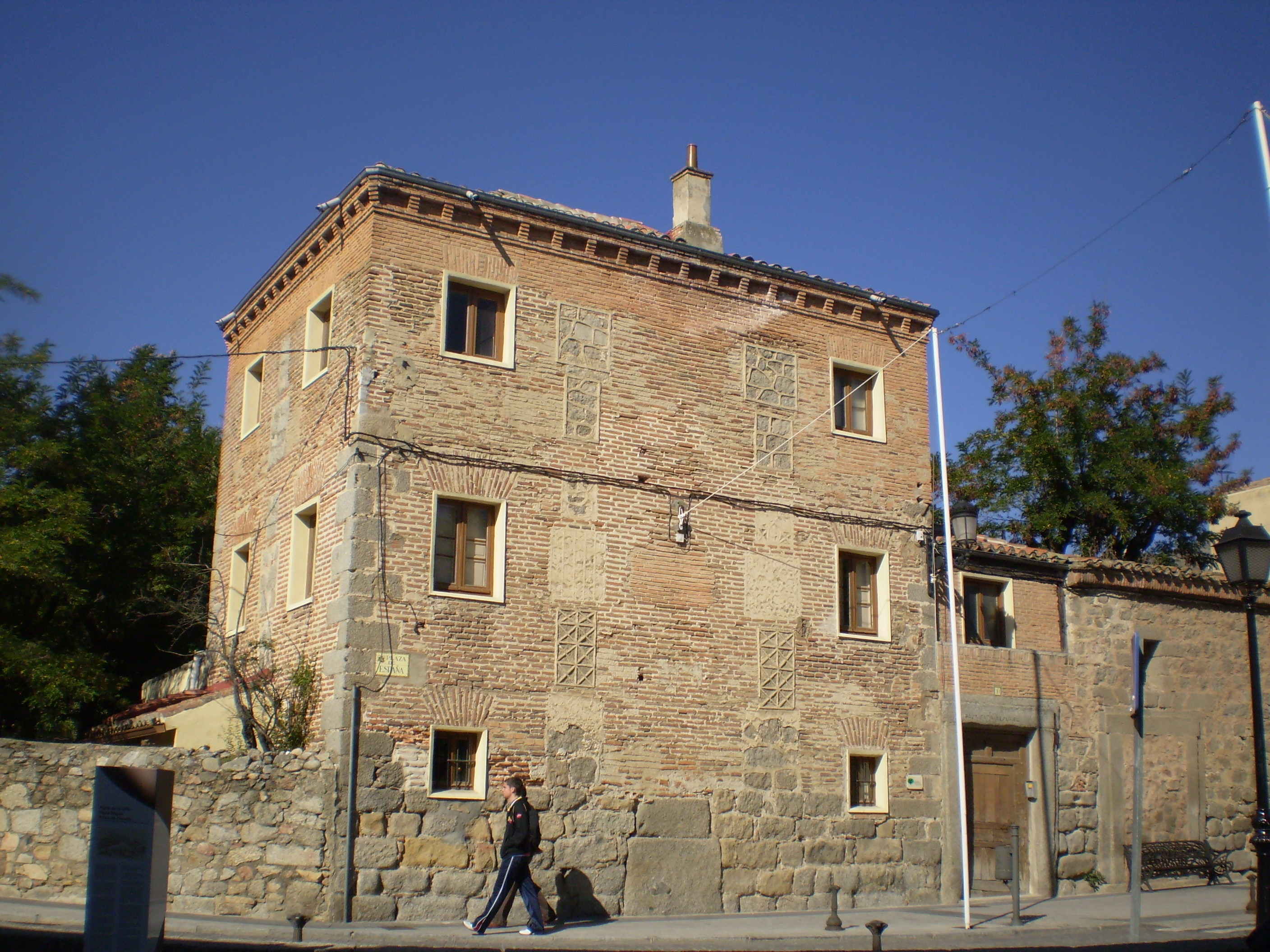 Prestado Monastery. El Escorial, Community of Madrid, Spain